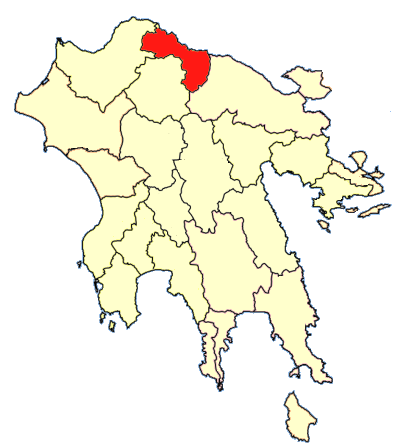 Aigialeia, Greece province